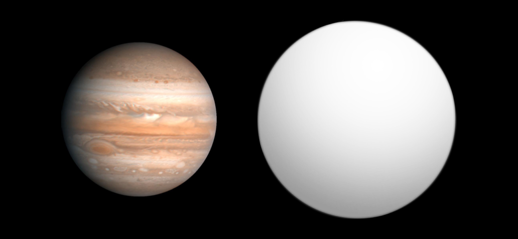 Comparison of best-fit size of the exoplanet HAT-P-13 b with the Solar System planet Jupiter, as reported in the Extrasolar Planets Encyclopaedia[1] as of 2010-10-03. ↑ Extrasolar Planets Encyclopaedia (2010-09-30). Retrieved on 2010-10-03.